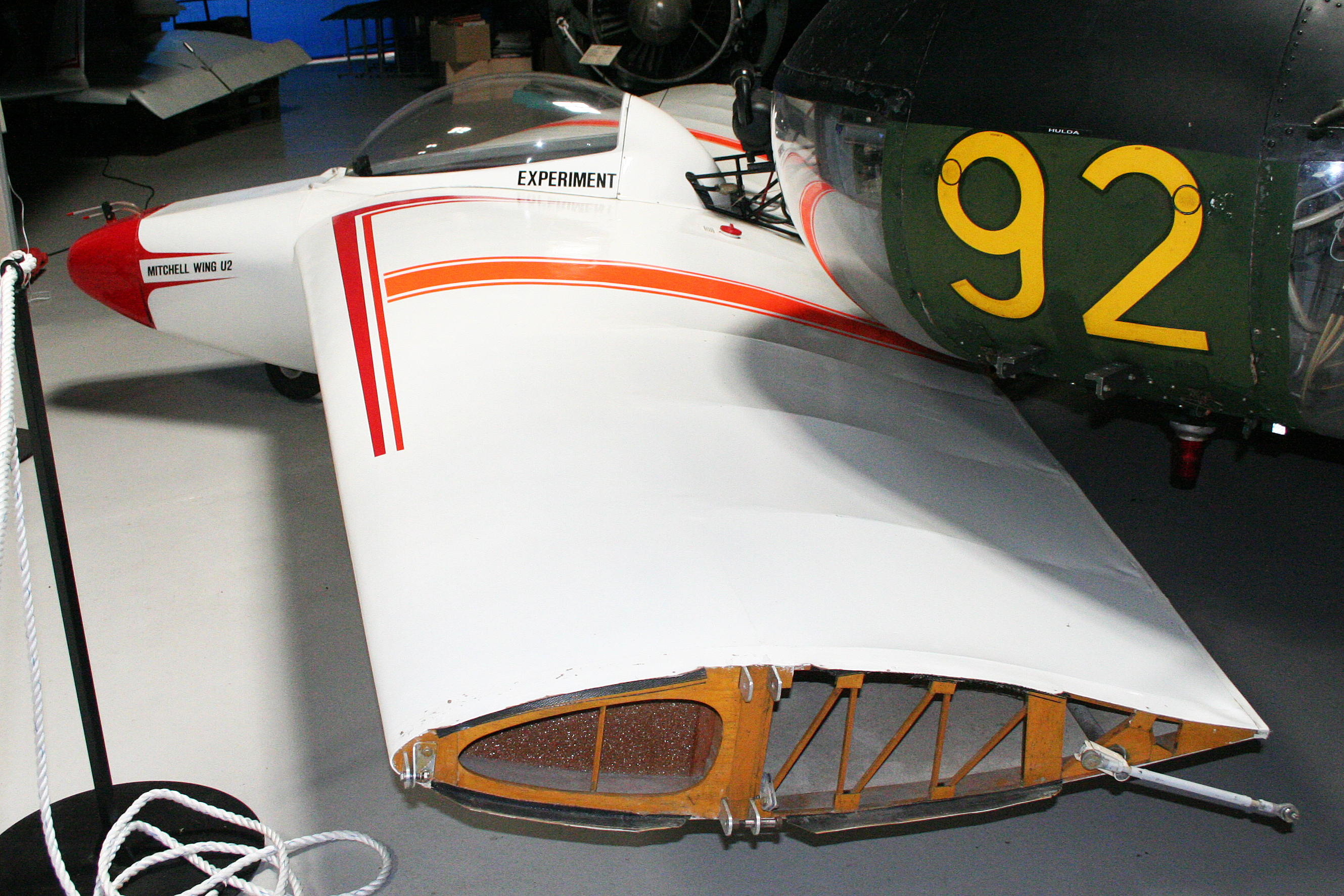 This is new with the museum, having arrived since my last visit 2 years ago. Svedinos Museum, Ugglarp, Sweden. 02-6-2012